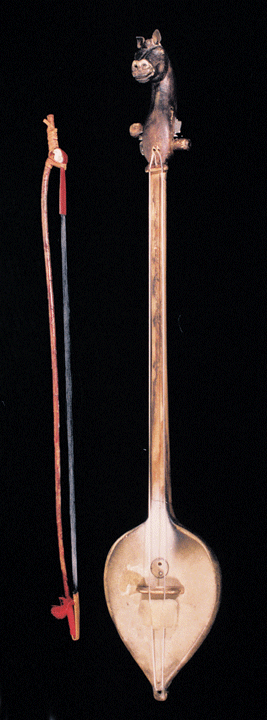 Igil with carved horse head decoration made by Oktober Saya.Photo by Johanna Kovitz, Boston, MA, May 2007.